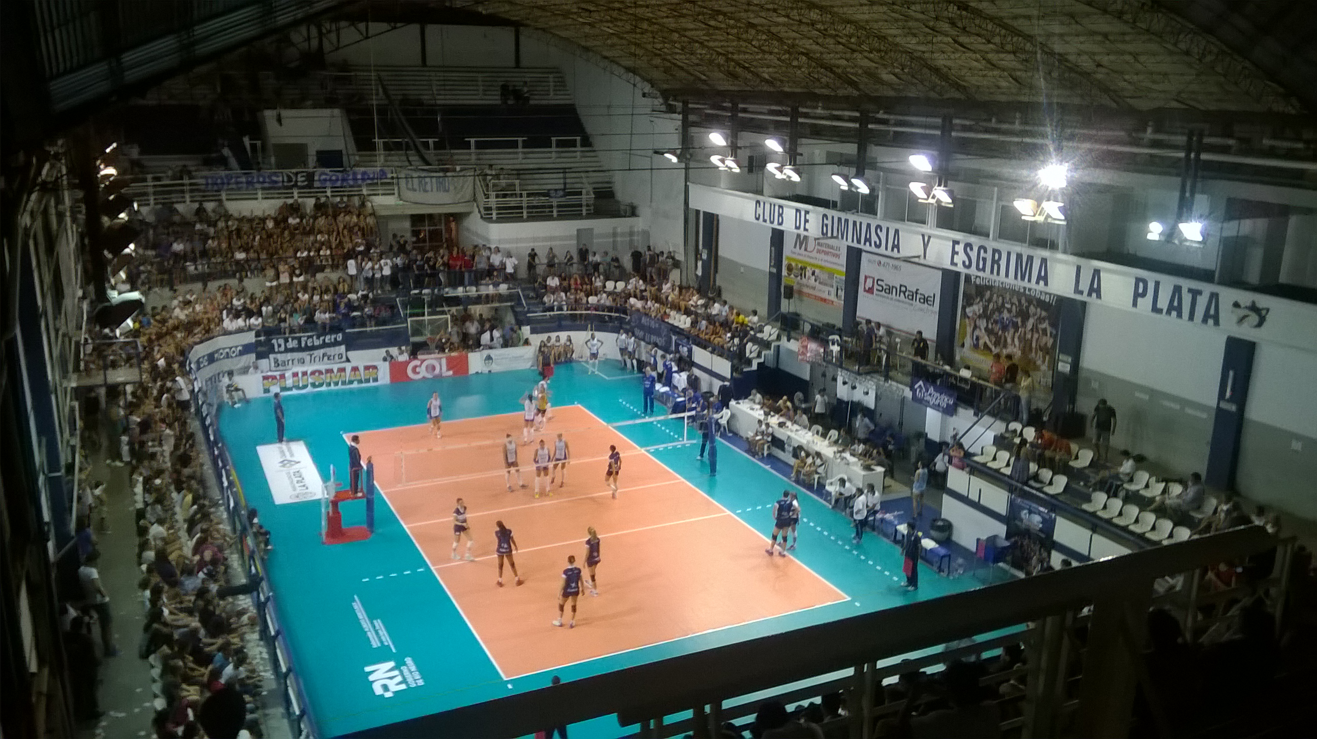 Photo of Gimnasia y Esgrima La Plata's basketball stadium.